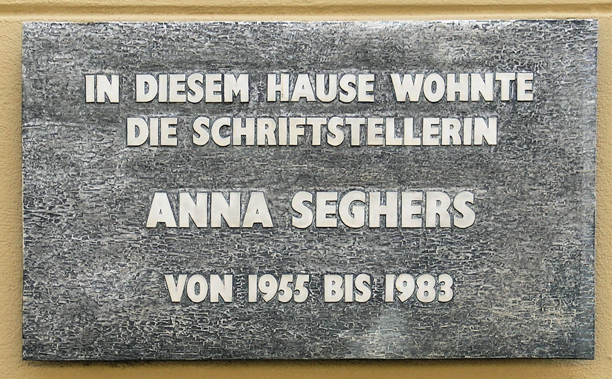 Memorial plaque, Anna Seghers, Anna-Seghers-Straße 81, Berlin-Adlershof, Germany Koordinate:52°26′17″N 13°32′27″E / 52.43806°N 13.54083°E